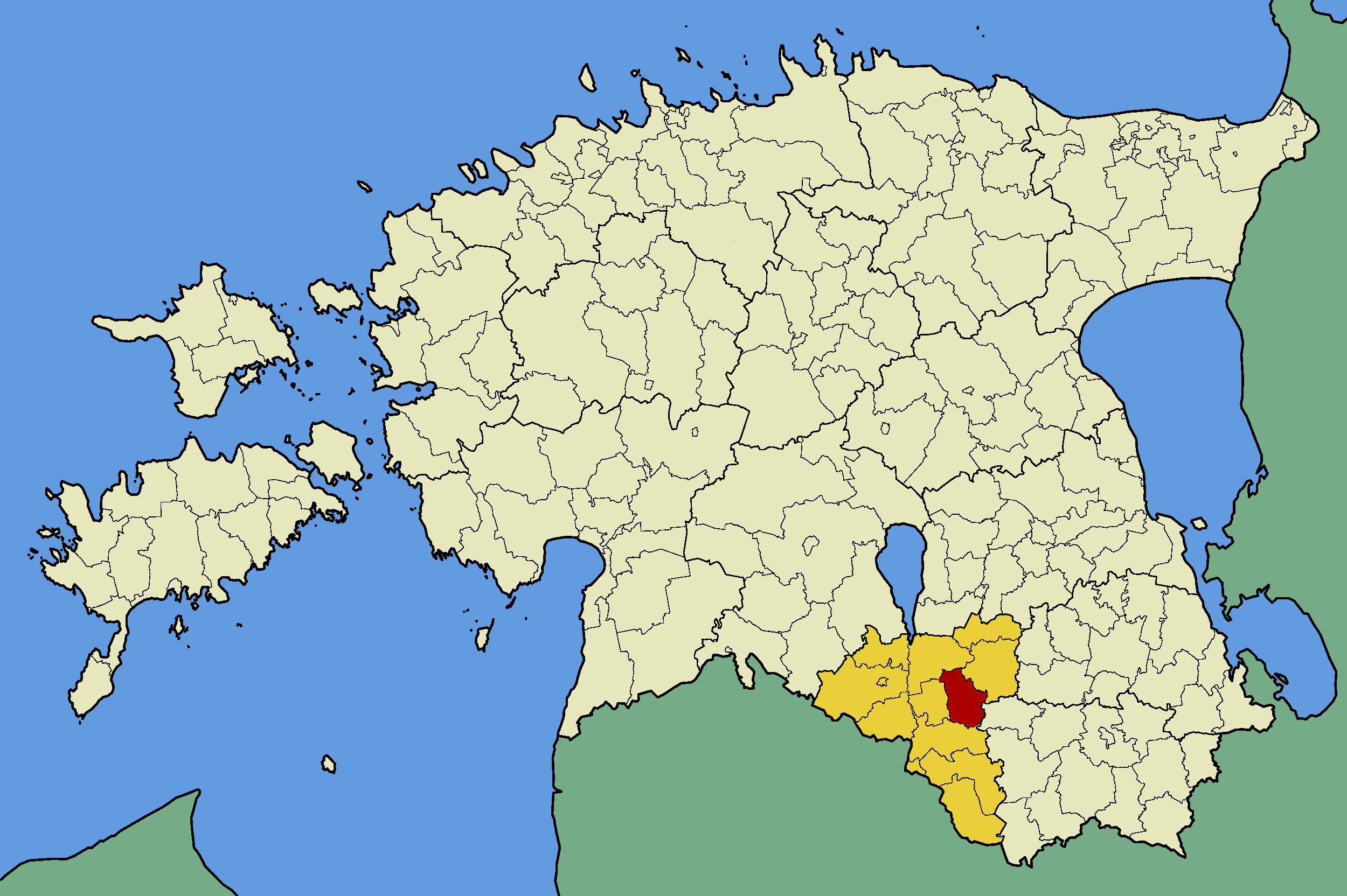 Map of Estonia with borders of municipalities (parishes). Valga county and Sangaste municipality emphasized.